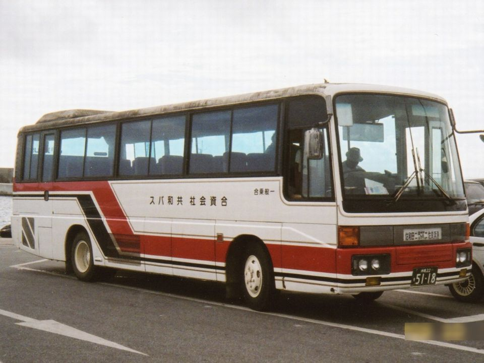 Kyowa Bus